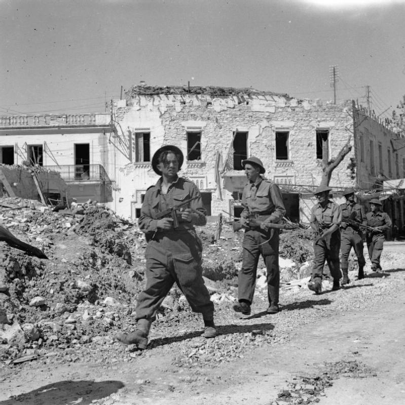 The British Army in Tunisia 1943 British troops advance warily through Bizerta, 8 May 1943.